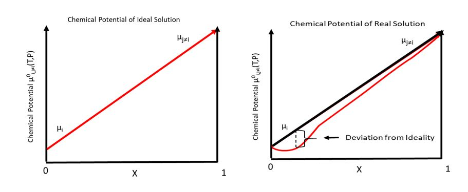 The chemical potential of component i in two-component (left) ideal and (right) real solutions.